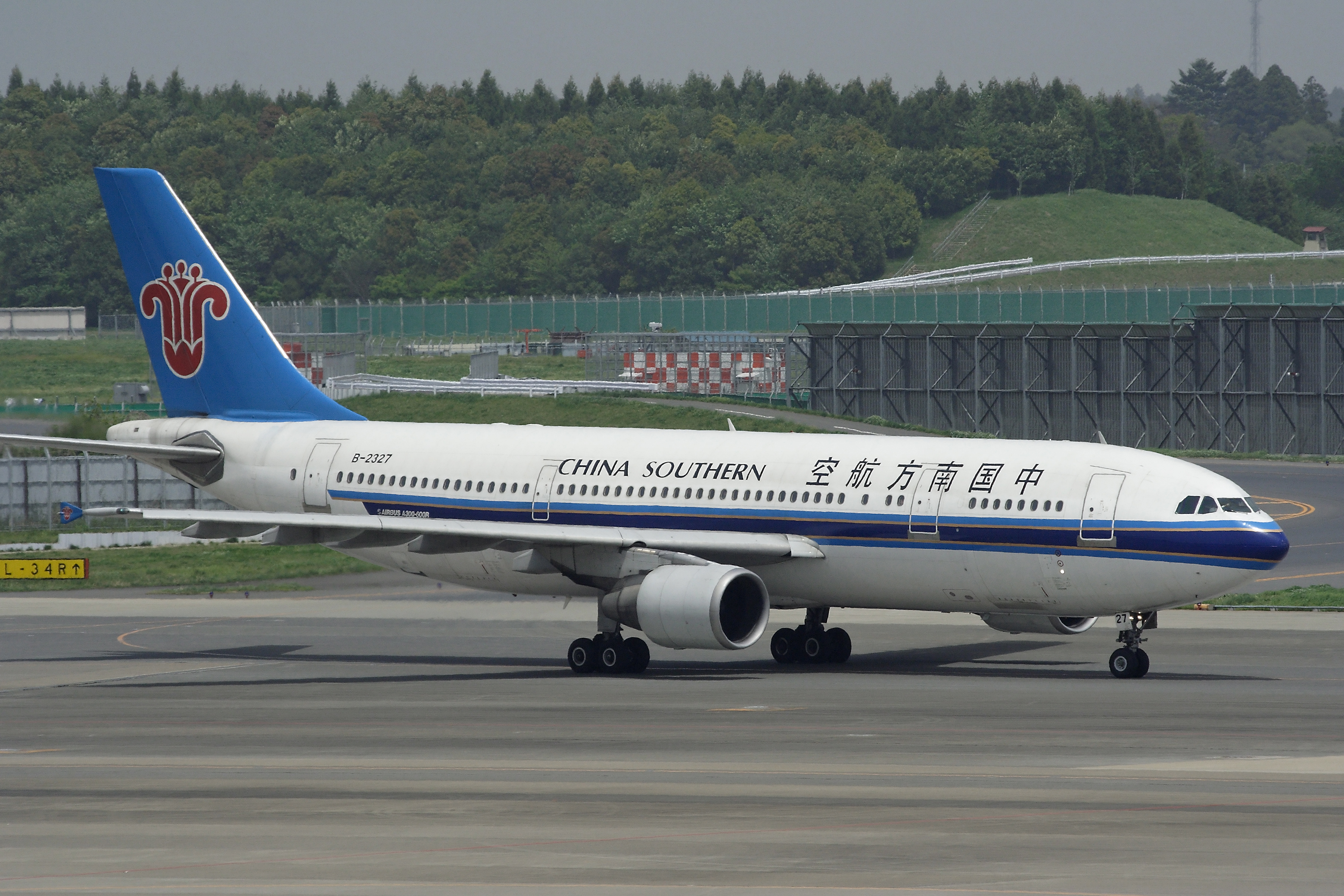 China Southern Airlines A300-600R (B-2327) taxiing to gate at Narita on 1 May 2006.